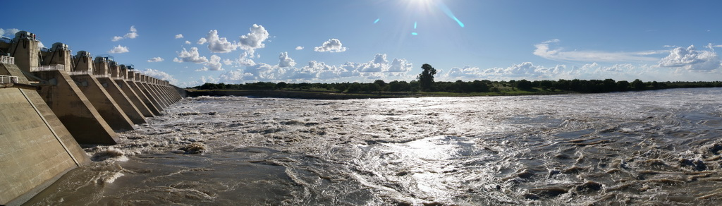 Bloemhof Dam from the North West (Bloemhof) side of the Vaal River